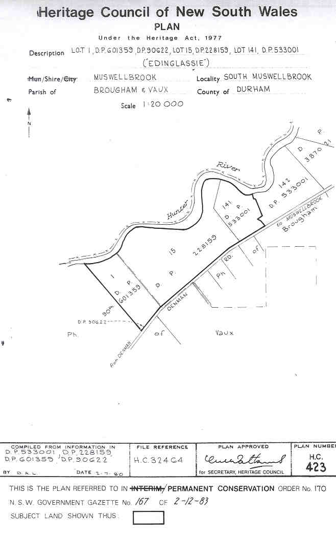 Edinglassie (New South Wales): PCO Plan Number 170